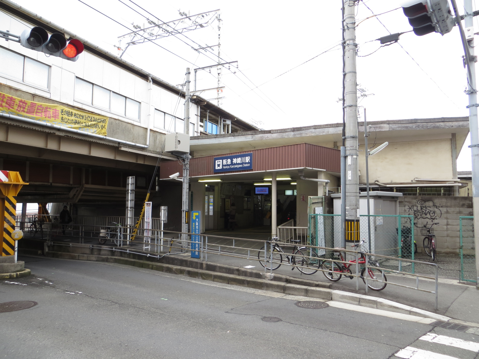 South Gate from Kanzakigawa Station (HK04).